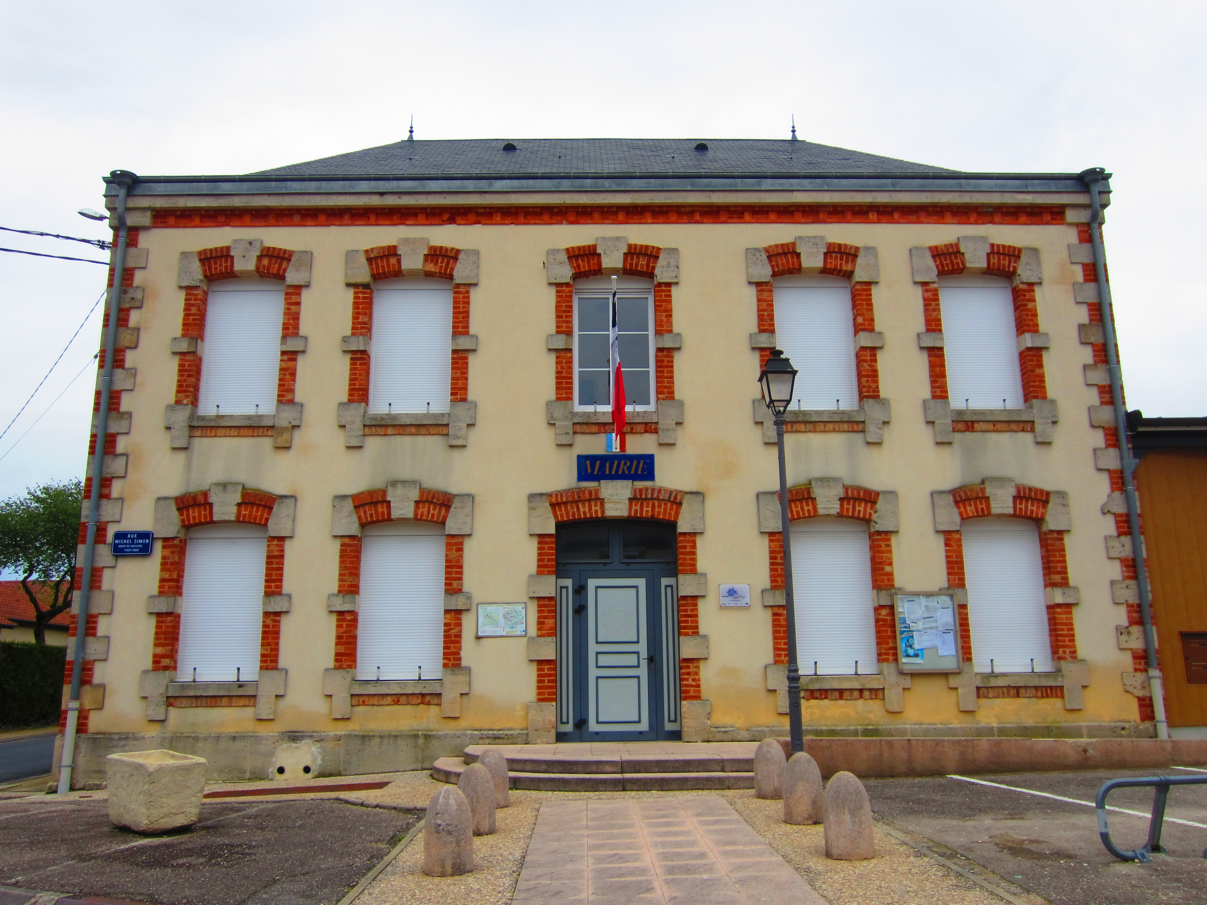 Vauclerc town council